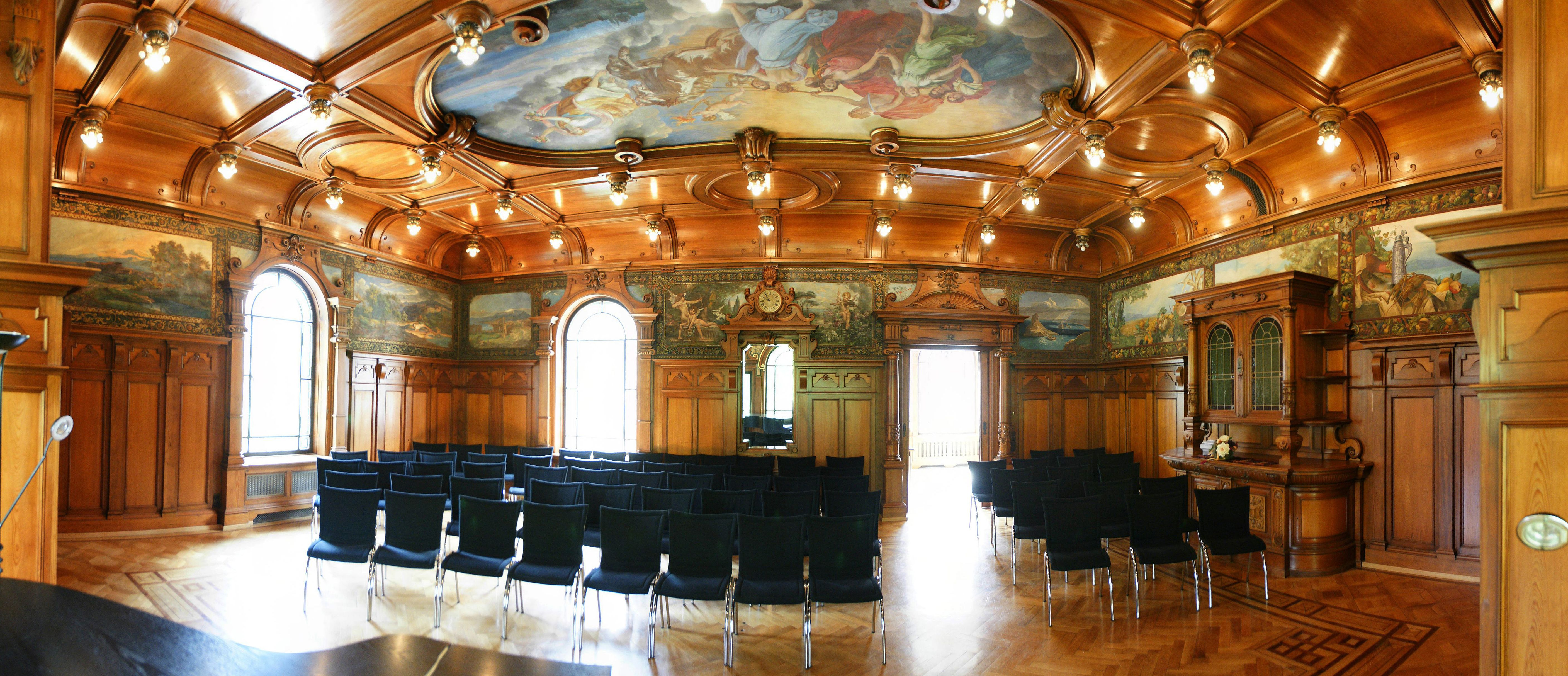 Panorama with 27 photos. The villa Grünau built in 1887 in Kennelbach, Austria. Here Friedrich Wilhelm Schindler lived with his wife Maria Margaretha Jenny Verena Schindler. Executive Architect of the music hall in 1896 in neo-renaissance was P. Stotz from Stuttgart, Germany.